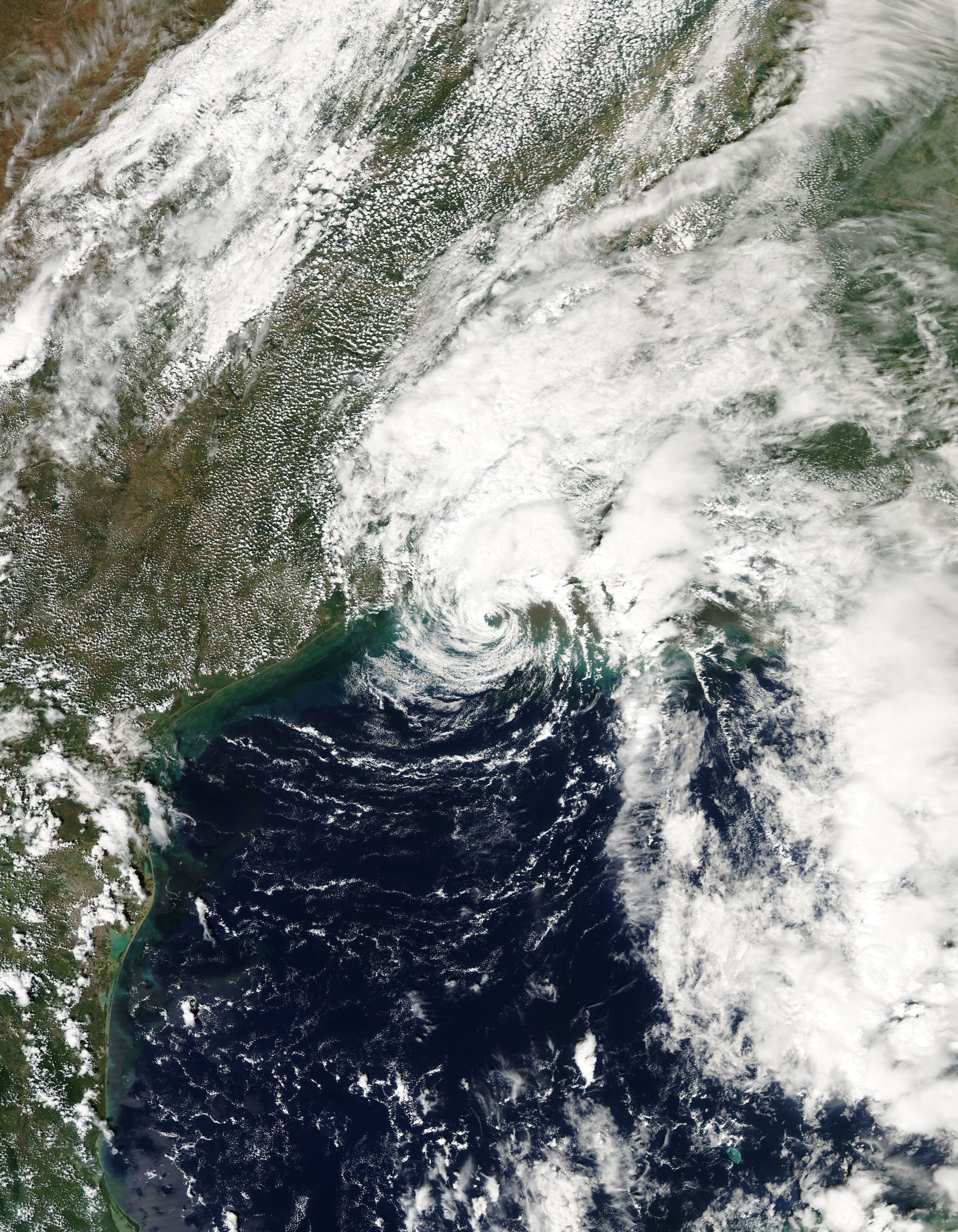 Tropical Storm Ivan near its final landfall near Holly Beach, Louisiana, on September 23, 2004